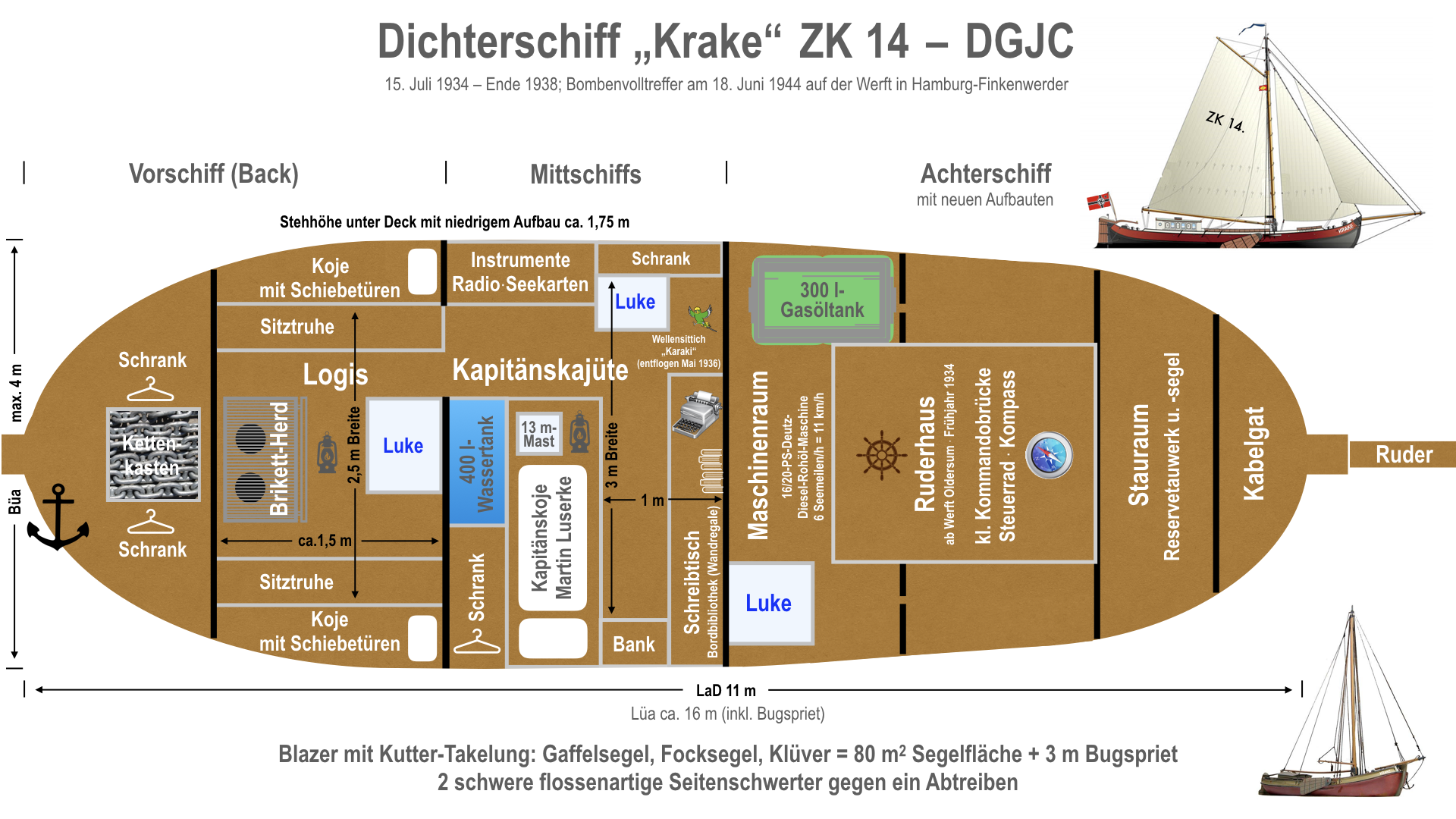 Detailed computer graphics of the historic poet's ship "Krake" with the identifier "ZK 14" (originally based in Zoutkamp harbour, The Netherlands) and the flag signal "DGJC" owned by German progressive pedagogue, bard and writer Martin Luserke (1880–1968). This computer graphics is based on a handmade sketch created in 1936/37. It is enriched due to published historic descriptions by Martin Luserke during the time of 1934 to 1938 as well as a retrospective description by his youngest son and sailor fellow Dieter Luserke (1918–2005) in 1988. Please note that some details of this sketch are symbolic: Pet parakeet, typewriter, kerosene lamps, the ship's side view and its semi-profile do not exactly meet reality. The historic auxiliary powered vessel Krake (= octopus) was a sailing vessel with an auxiliary engine, a Dutch barge, type Blazer, made of solid oak wood. It is a special construction usually deployed for fishery and cargo in the shallow waters of the Wadden Sea which spreads between the Frisian Islands and the Dutch and German North Sea coast line. Its flat bottom enables the ship during tidal flats to rest on the sea ground. In Falderndelft harbour of Emden, East Frisia, Germany, Martin Luserke created some of his most successful books: Hasko, 1935 awarded with Literaturpreis of Reichshauptstadt Berlin, his most favourite book Obadjah und die ZK 14 (the name Obadjah originates from an ancient Jewish figure despite Nazi Antisemitism) and a Viking trilogy.